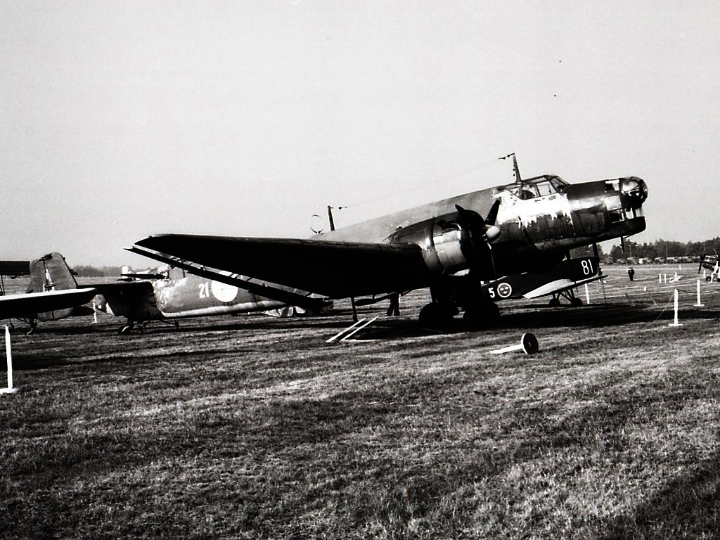 Junkers Ju 86, Swedish Air Force B 3